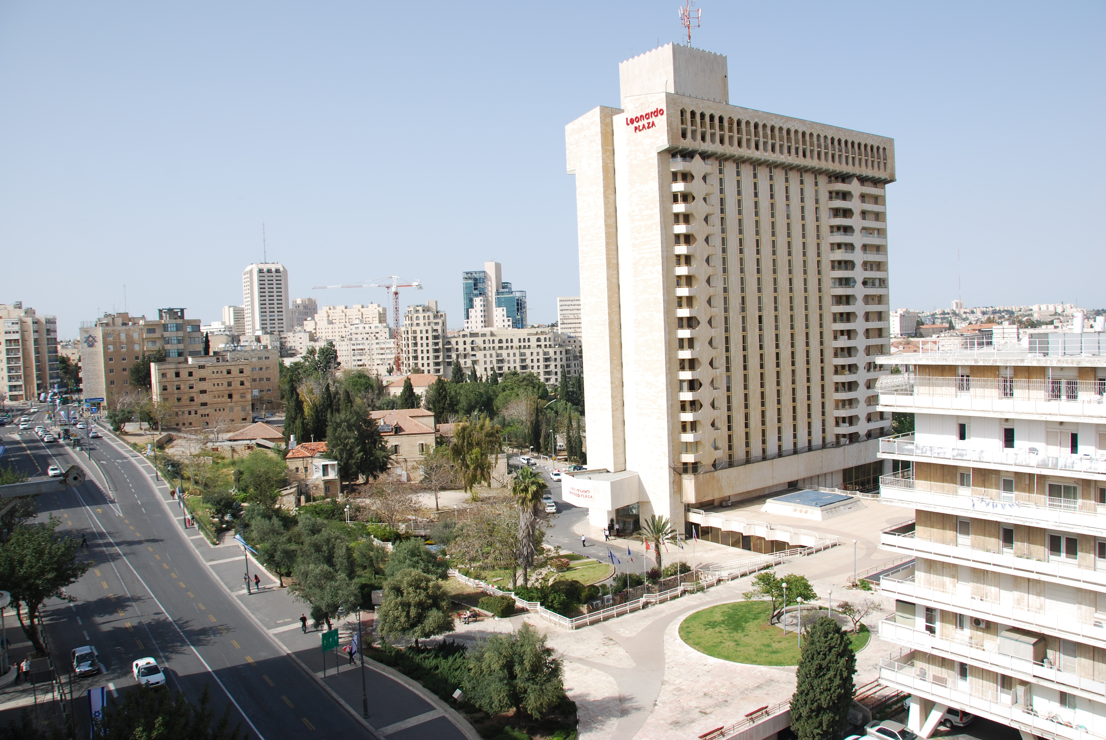 leonardo plaza hotel in rehavia, jerusalem